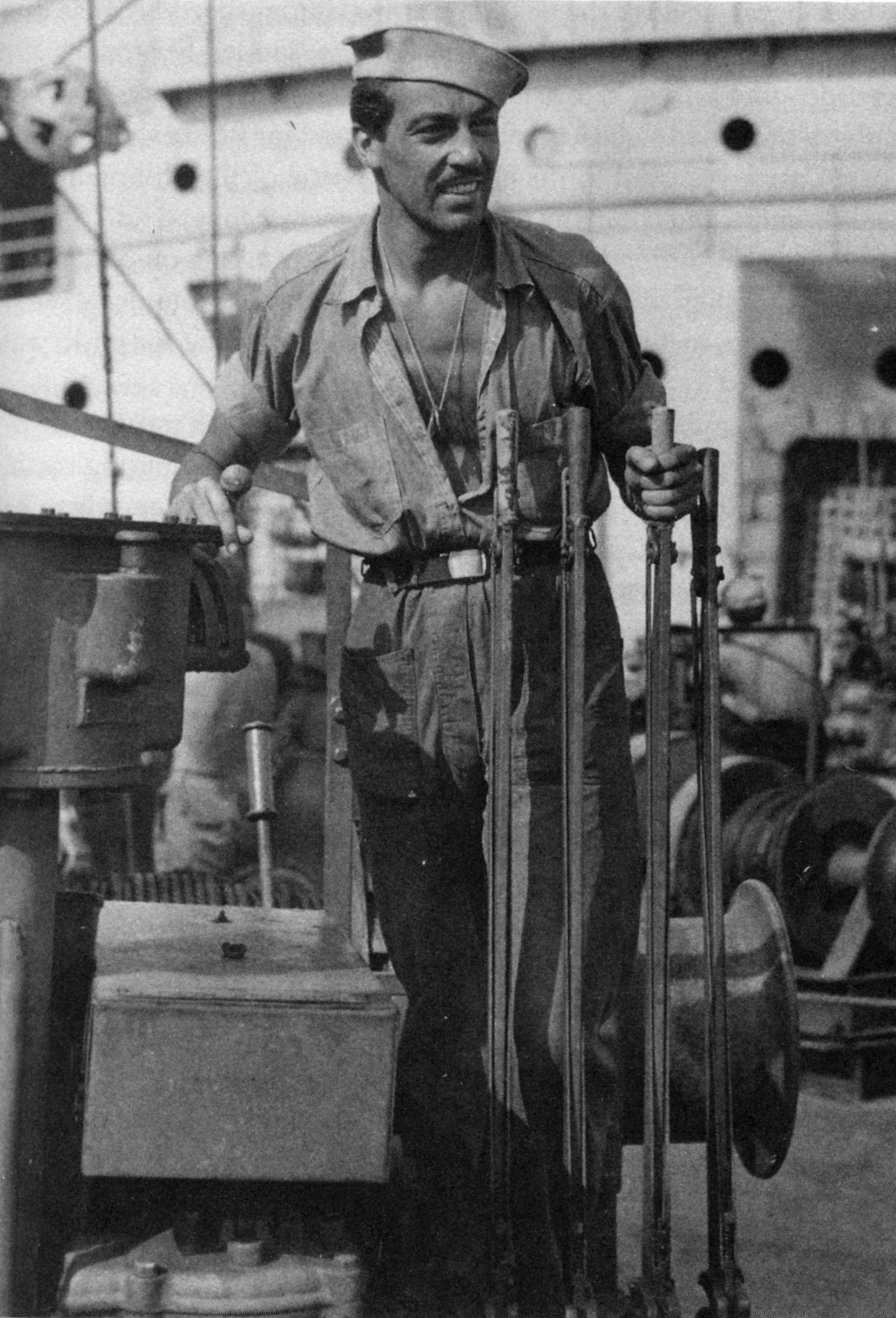 Cesar Romero on board the USS Cavalier (APA-37)